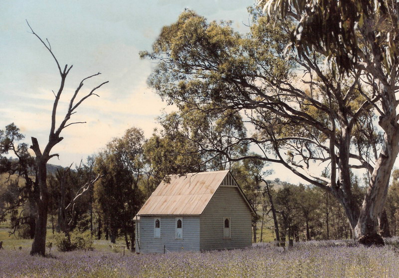 Sackville, NSWArchitecture 26